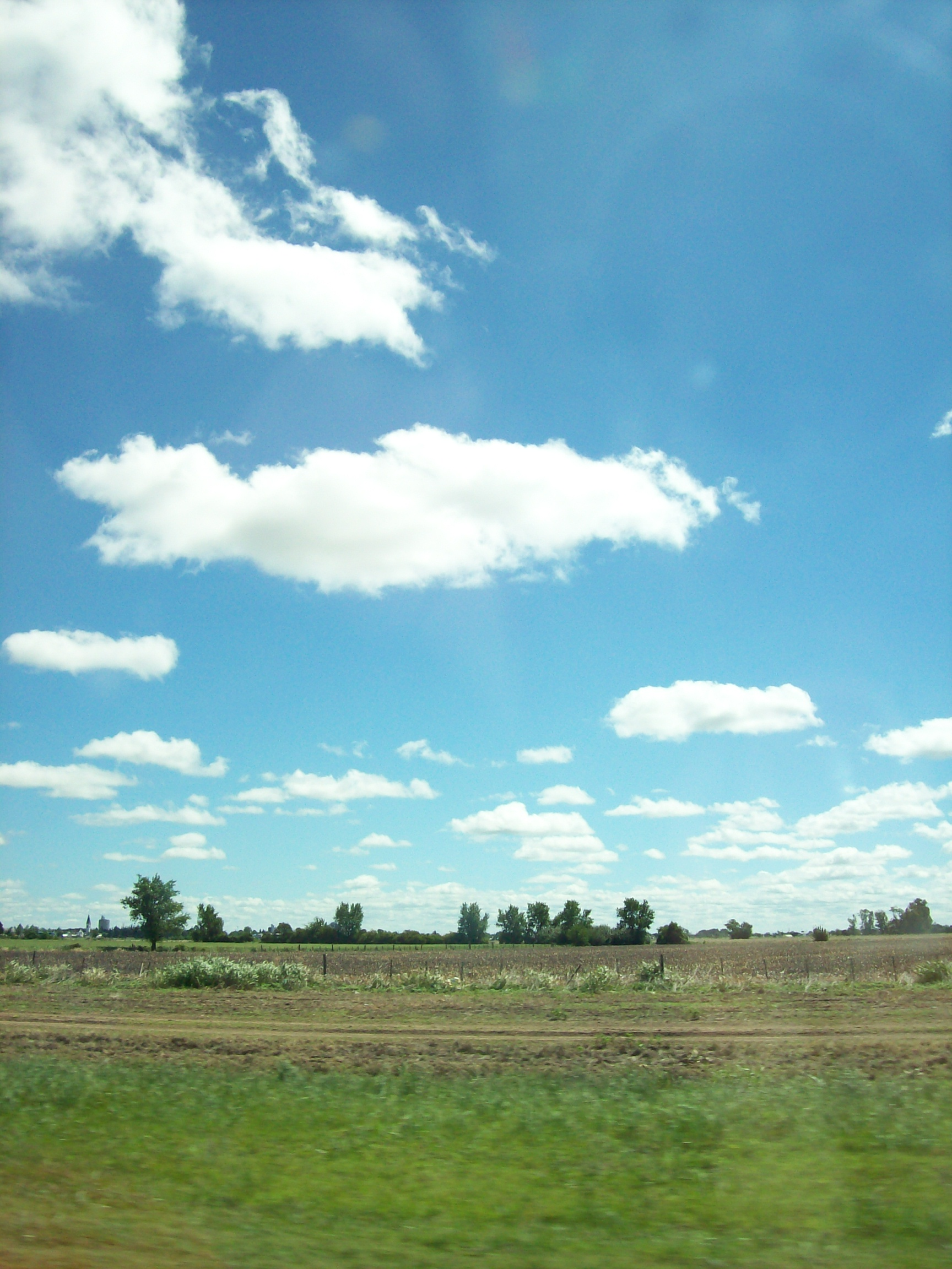 Typical landscape of the Pampa húmeda in Buenos Aires Province, Argentina.